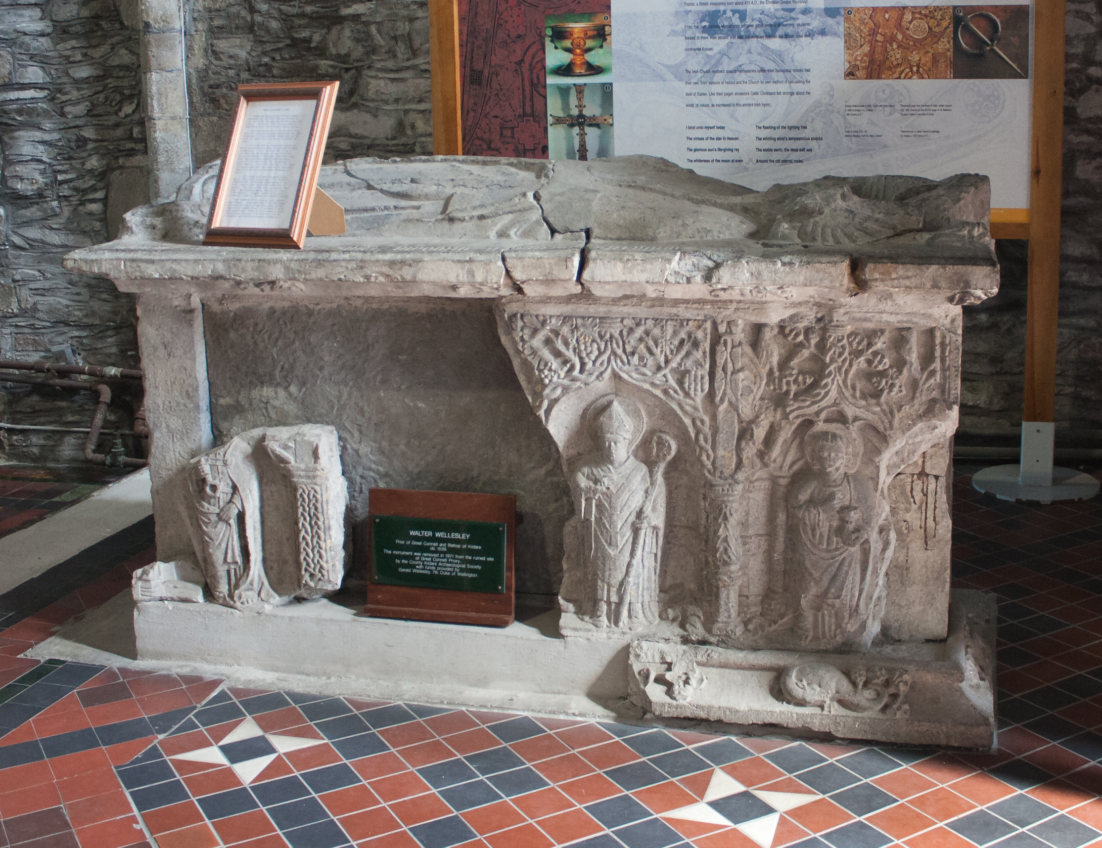 Tomb of Walter Wellesley, prior of Greatconnell Priory. Inscription of the small plaque in front of the tomb: WALTER WELLESLEY Prior of Great Connell and Bishop of Kildare ob. 1539. The monument was removed in 1971 from the ruined site of Great Connell Priory, by the County Kildare Archaeological Society with funds provided by Gerald Wellesley, 7th Duke of Wellington.